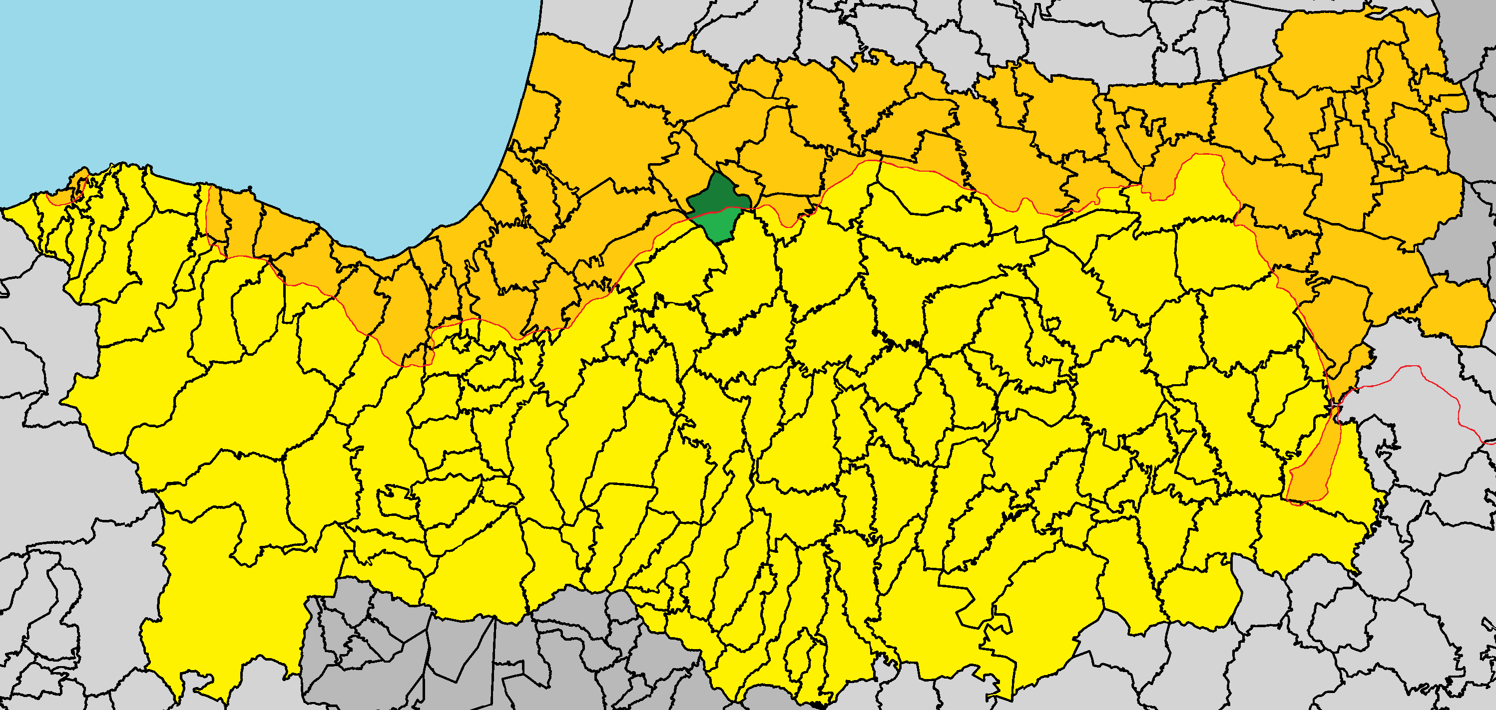 Katokopia in Nicosia District (de jure).